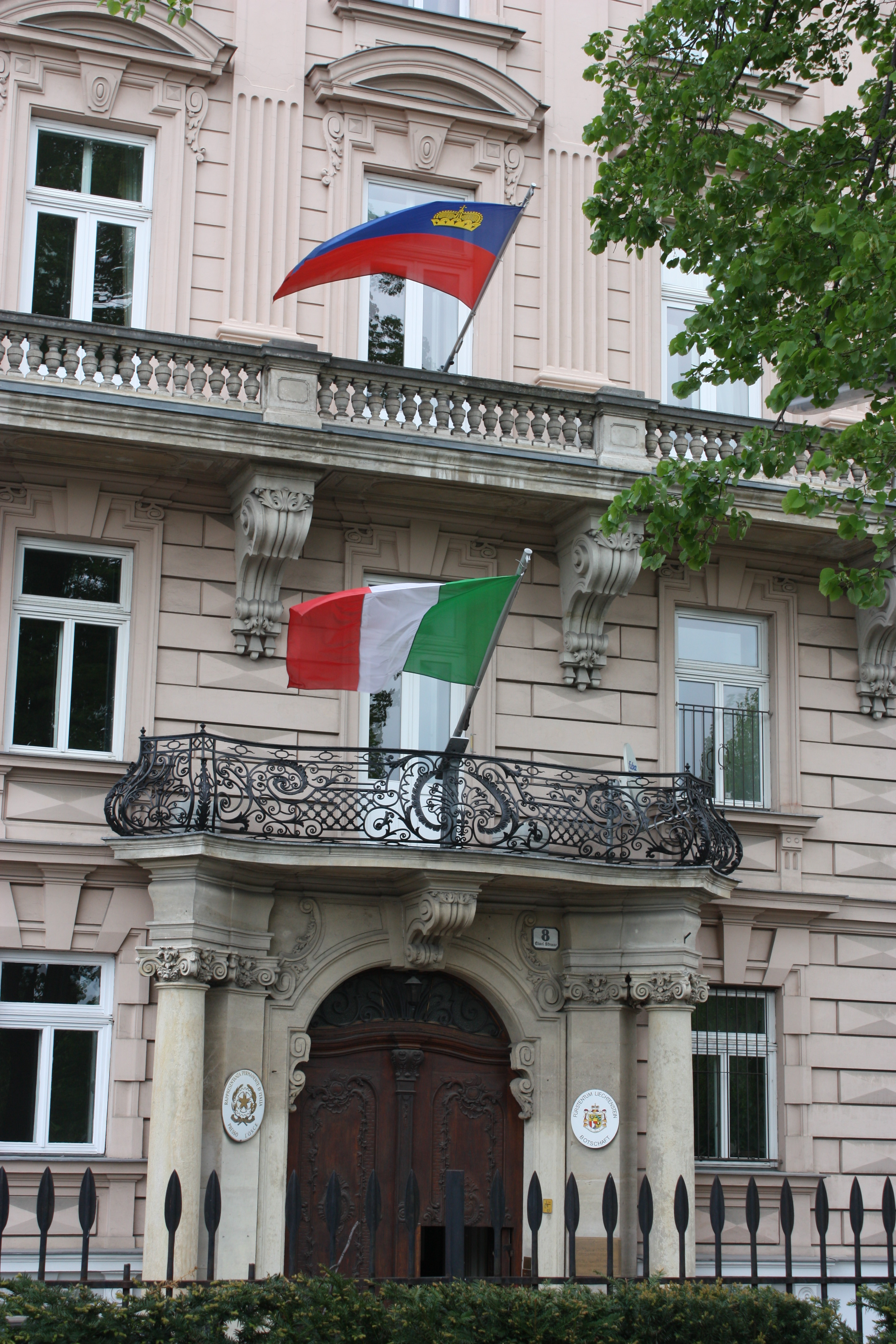 Embassy of Liechtenstein and Permanent Mission of Italy by OSCE in Vienna's first district Innere Stadt.